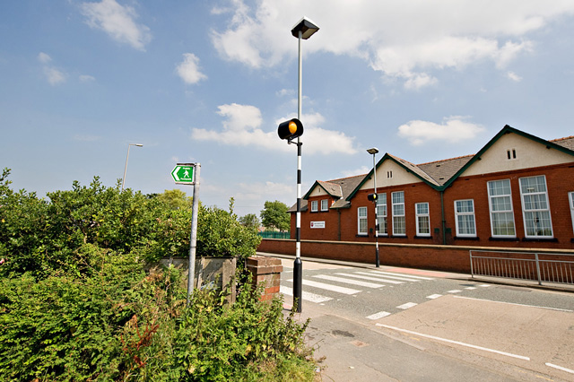 Abram Bryn Gate CP School, in Bryn Gate, Greater Manchester, England.